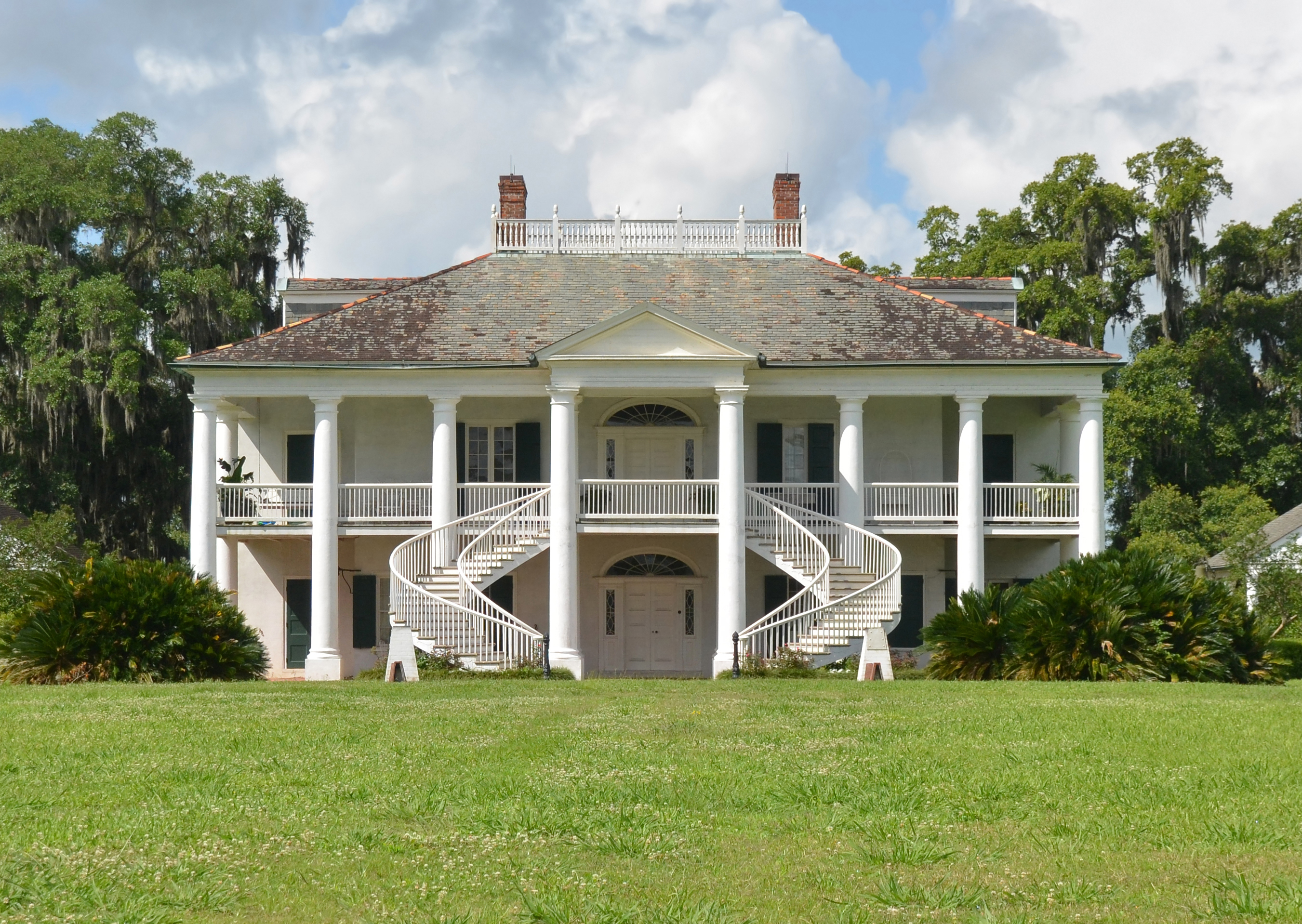 Evergreen Plantation, Louisiana, United States.